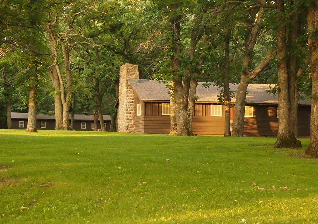 Lake Shetek State Park WPA/Rustic Style Group Camp, Zuya Group Center, Lake Shetek State Park, Minnesota, USA. Viewed from the north-northeast.